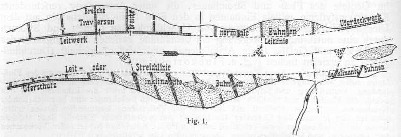 This image comes from the Lexikon der gesamten Technik (dictionary of technology) from 1904 by Otto Lueger.